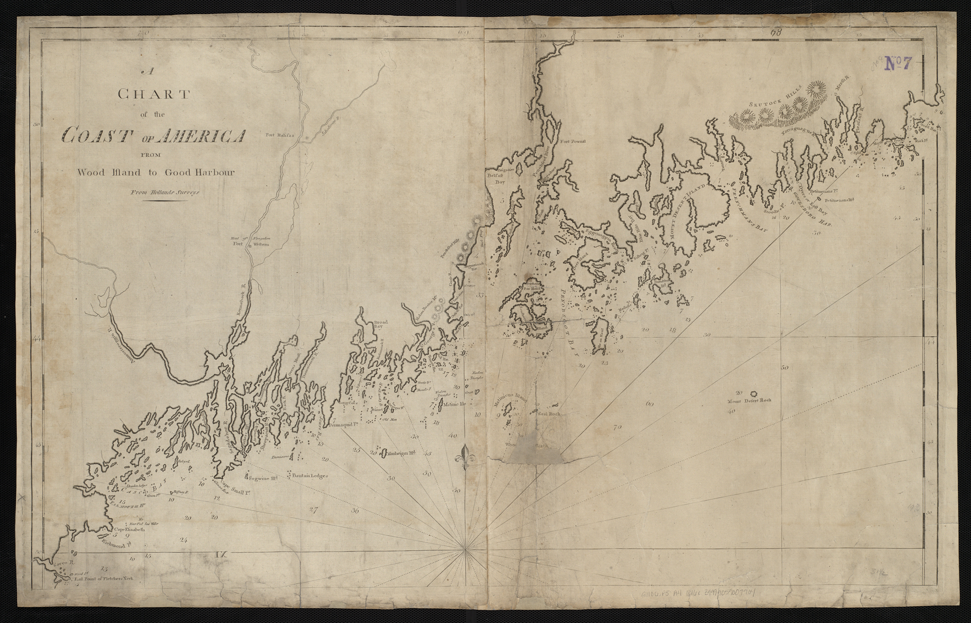 Zoom into this map at . Author: Holland, Samuel Publisher: Allen, Andrew J. Date: 1816 Location: Maine Dimension 52x85cm Scale: Scale not given Call Number: G1106.P5 A4 1816x